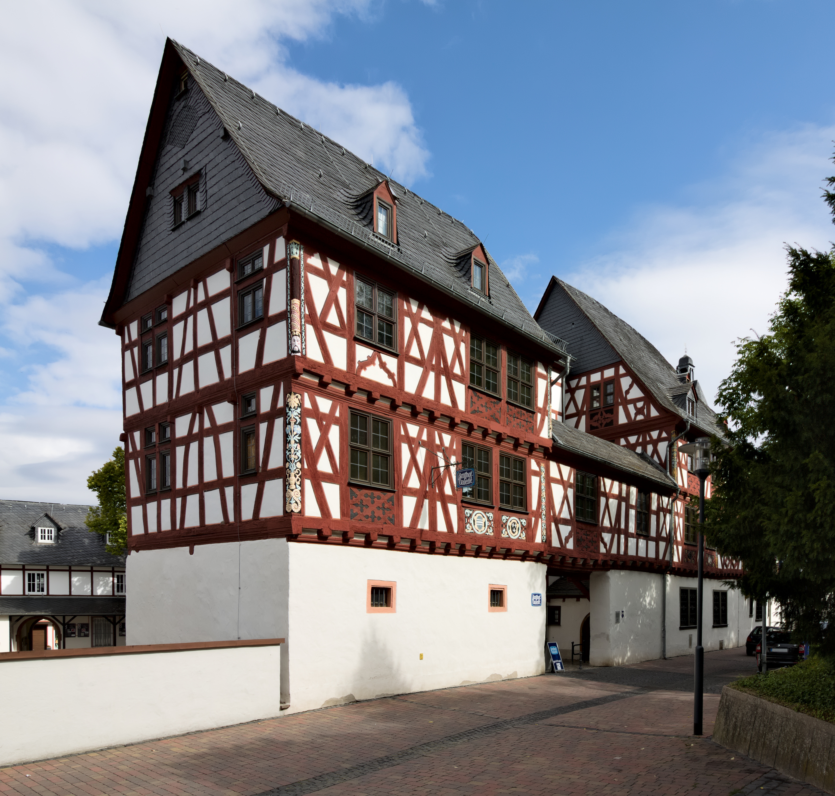 The former "Amthof" at Bad Camberg, western part of the "Rentamt" (1608/09). Bad Camberg, Taunus, Germany.